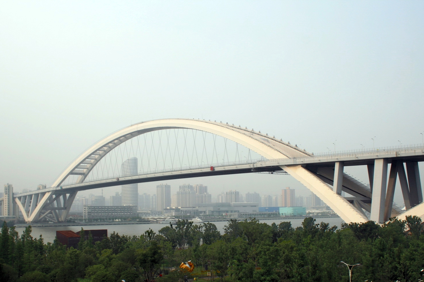 View of Shanghai's Lupu Bridge, taken from the rooftop of the Swiss Pavillion at the World Expo 2010 (Pudong side)